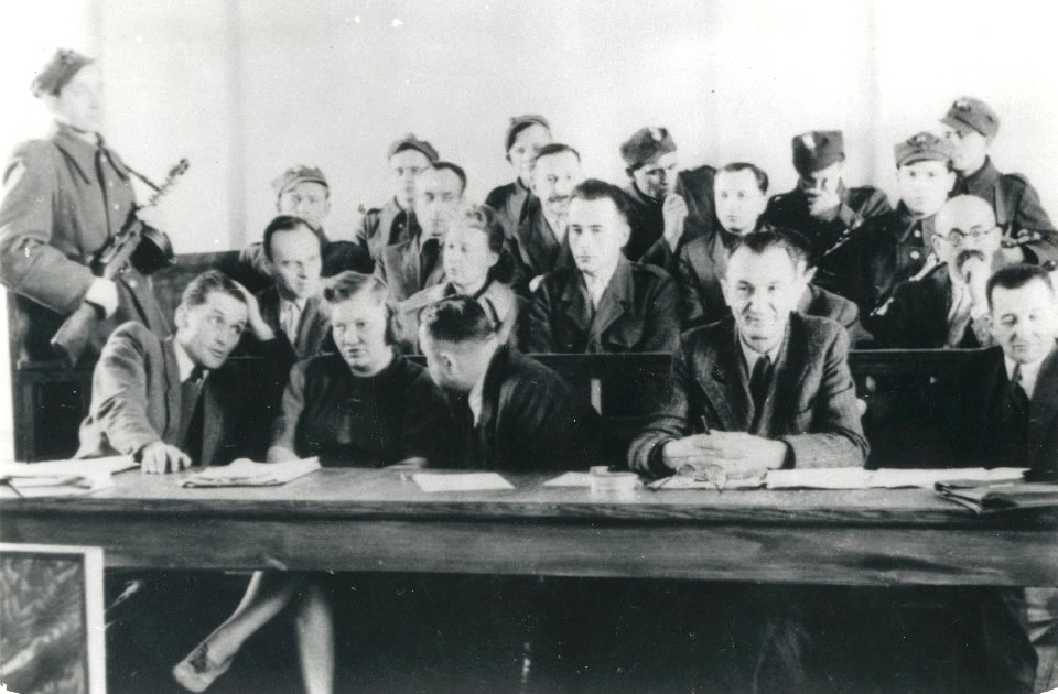 Show trial of Capt. Witold Pilecki, sentenced to death